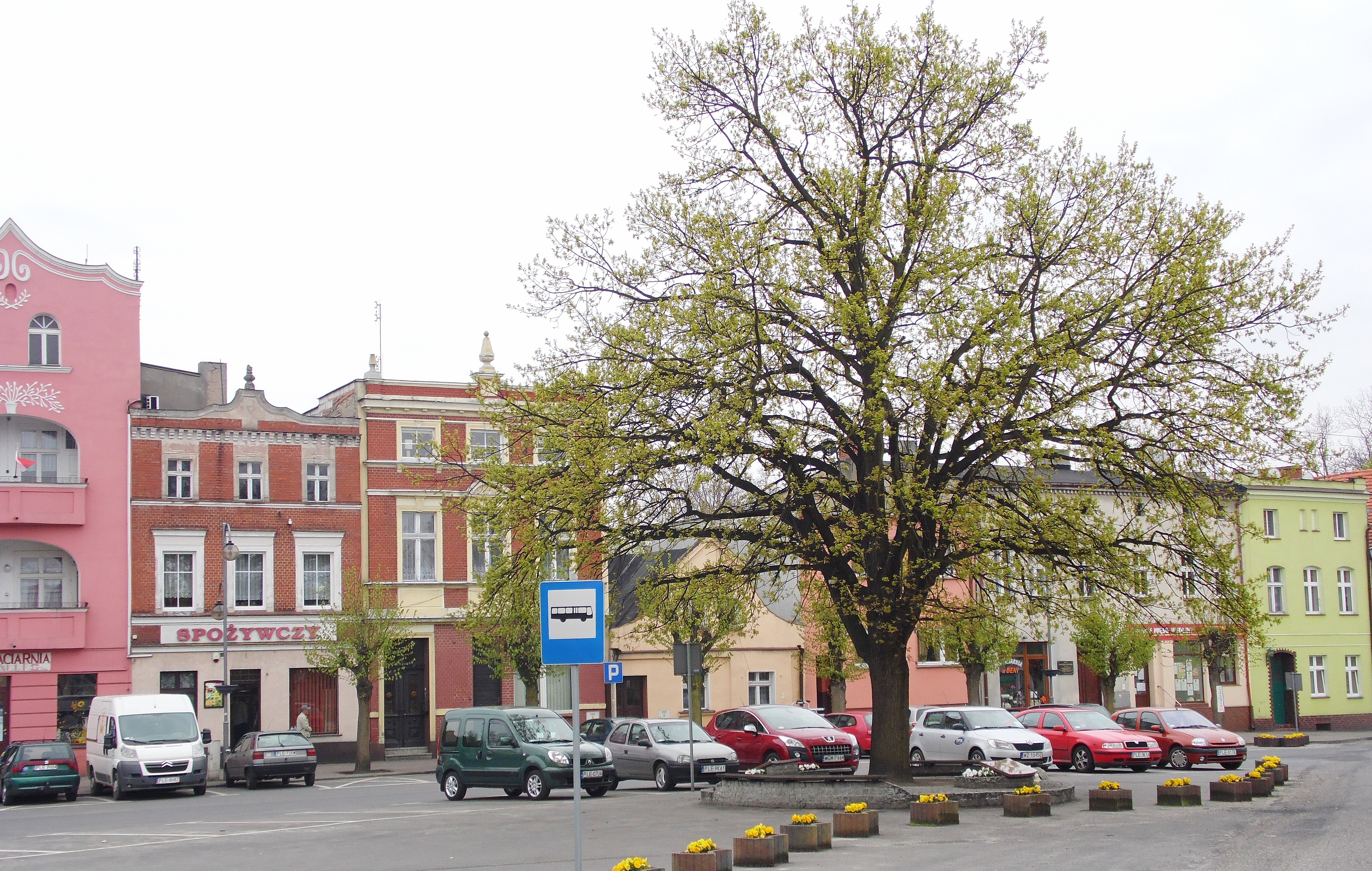 Osieczno - Market (John Paul II Oak) / area. Leszno / province. Greater Poland / Poland